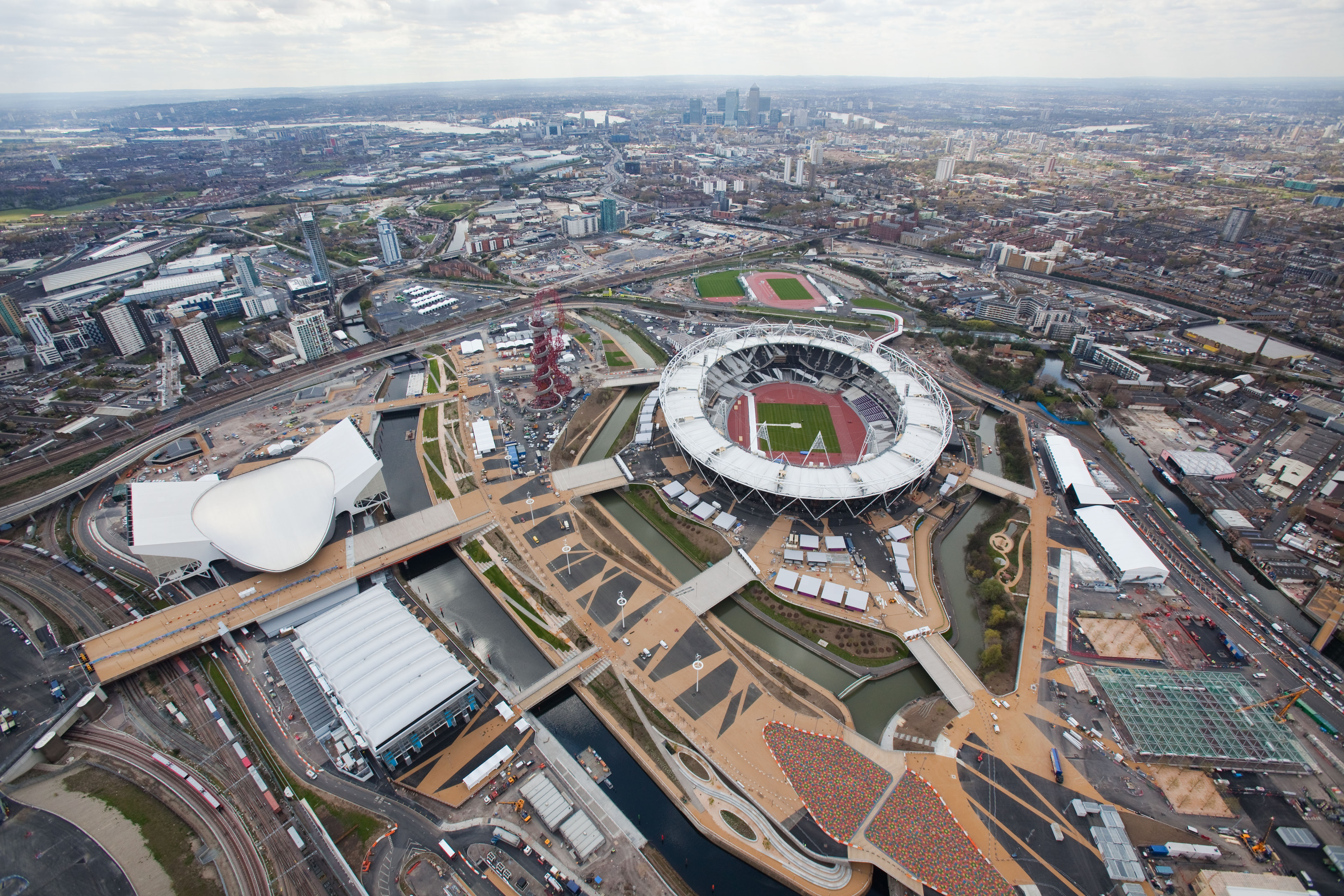 Final Construction of Olympic Park, London — (April 2012). Aerial view of the Olympic Park looking south west towards London. Picture taken on 16 April 2012.